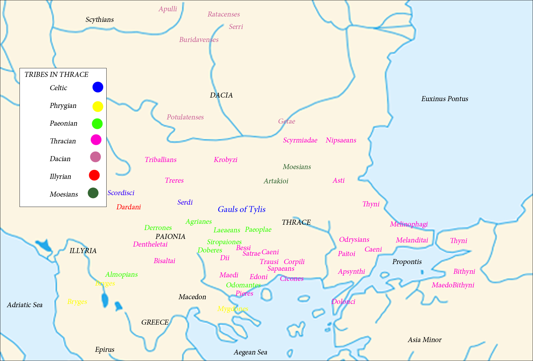 Tribes in Thrace pre-Roman conquest Own work data from The Thracians 700 BC-AD 46 (Men-at-Arms) by Christopher Webber and Angus McBride,ISBN-10: 1841763292,2001, The Odrysian Kingdom of Thrace: Orpheus Unmasked (Oxford Monographs on Classical Archaeology) by Z. H. Archibald,1998,ISBN-10-0198150474, Dacia: Landscape, Colonization and Romanization by Ioana A Oltean, ISBN 0415412528, 2007, Blank map is a part of Blank_map_of_South_Europe_and_North_Africa.svg